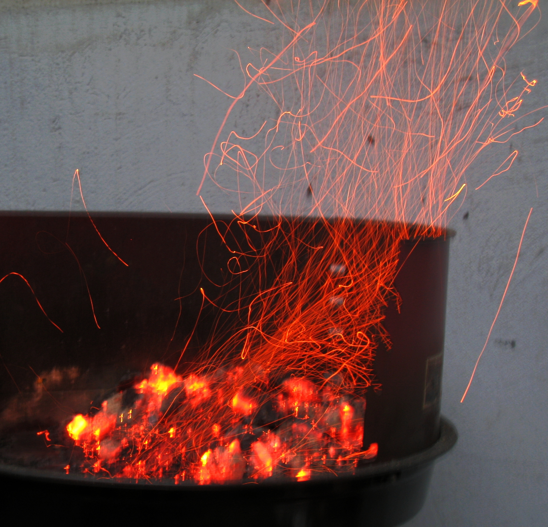 Spark traces from burning grill charcoal